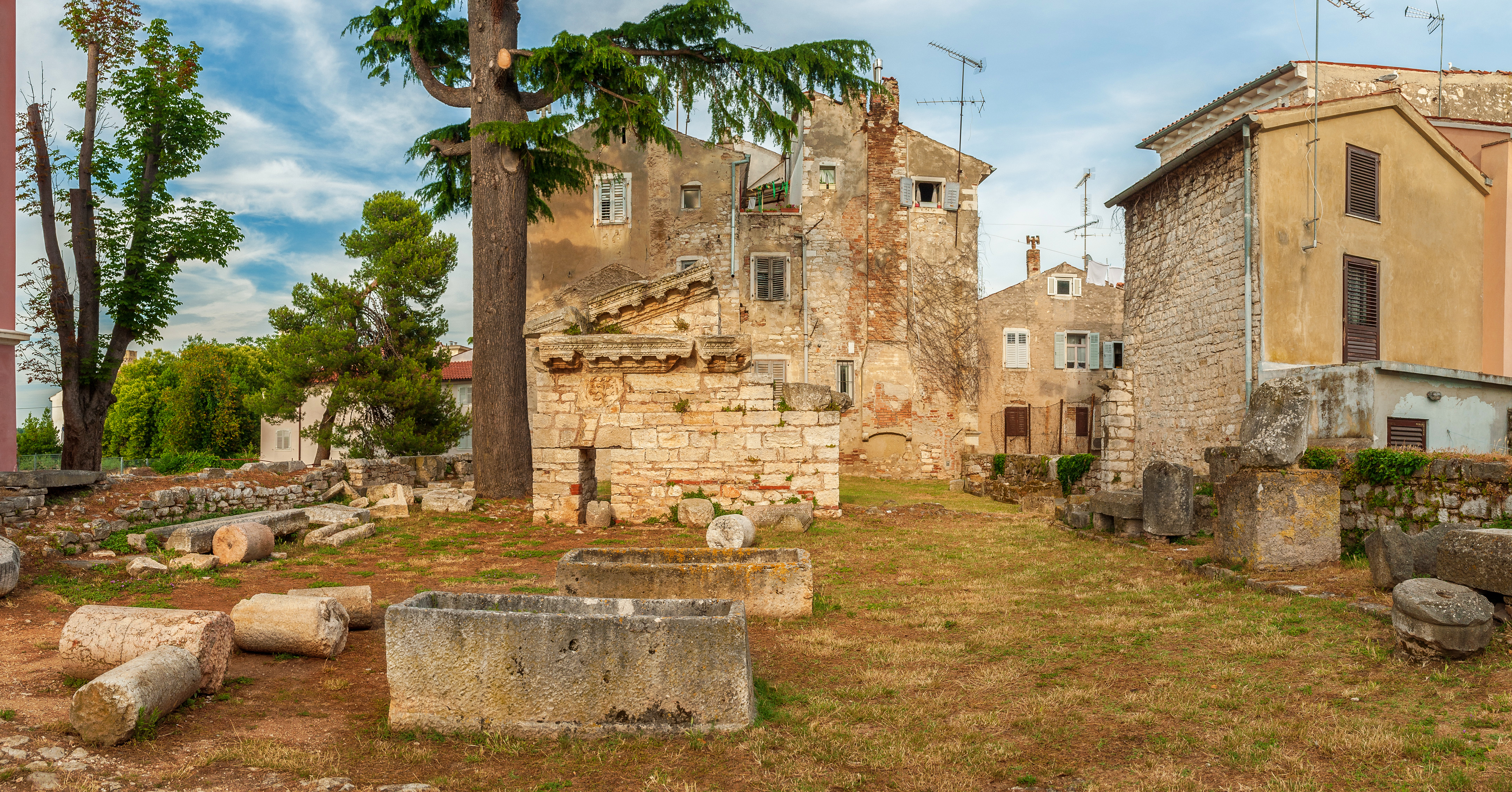 Ruins in Poreč.